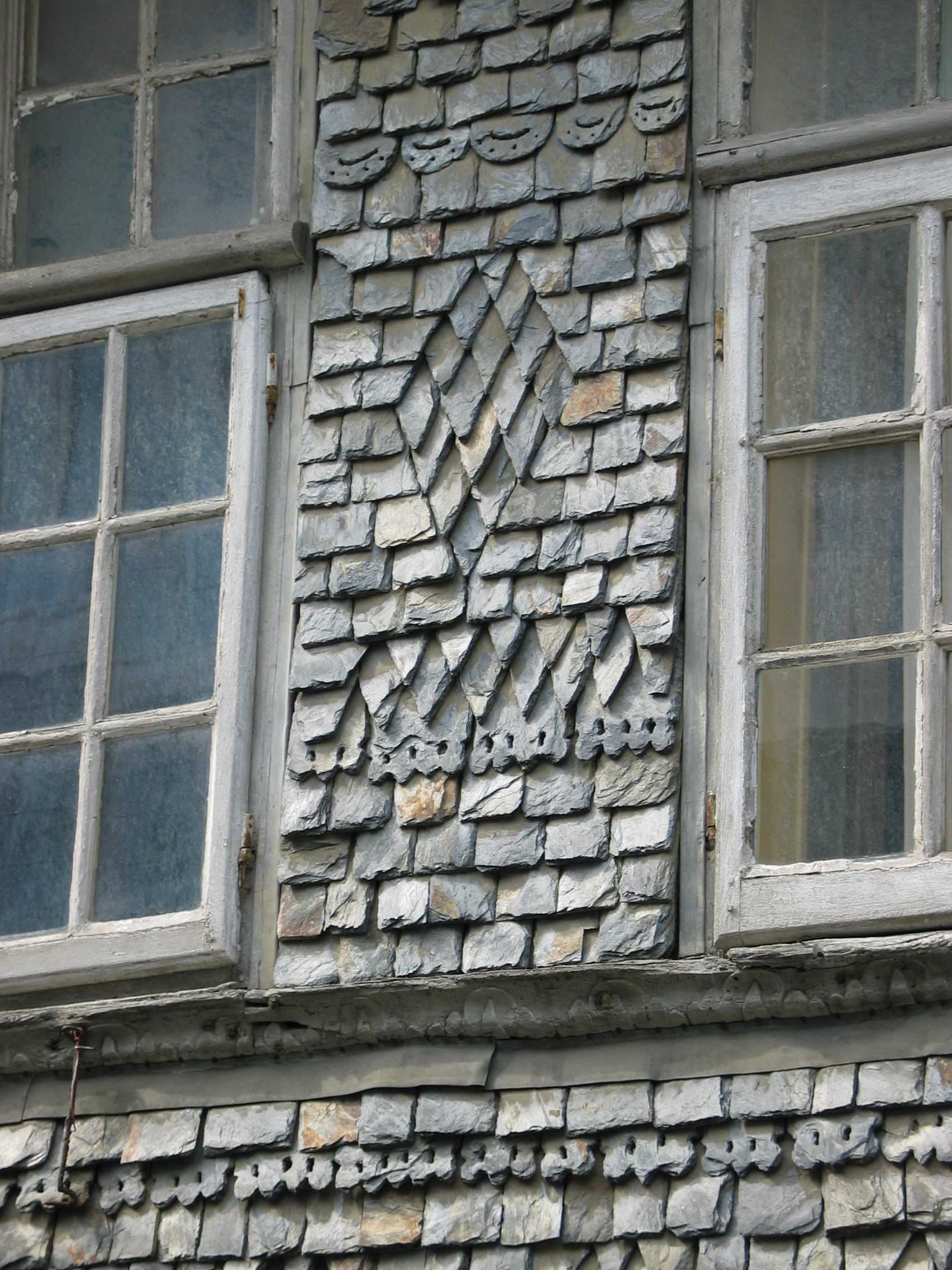 Artistically sculpted slate wall cladding on a house façade in Lannion, (Brittany, France).